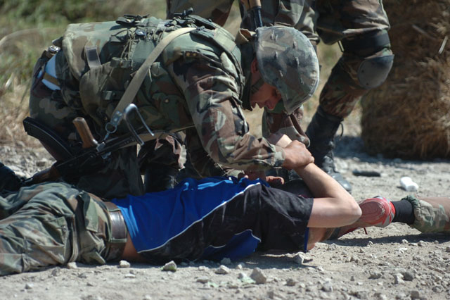 A Moldovan Soldier from Company A, 22nd Peacekeeping Battalion, takes a mock bandit into custody as part of an exercise designed to evaluate unit skills in international peacekeeping at Moldova's Bulboaca training facility, Aug. 19, 2010. During the exercise, North Carolina Army National Guard Soldiers helped the Moldovans sharpen their peacekeeping skills in advance of a 2012 NATO evaluation.